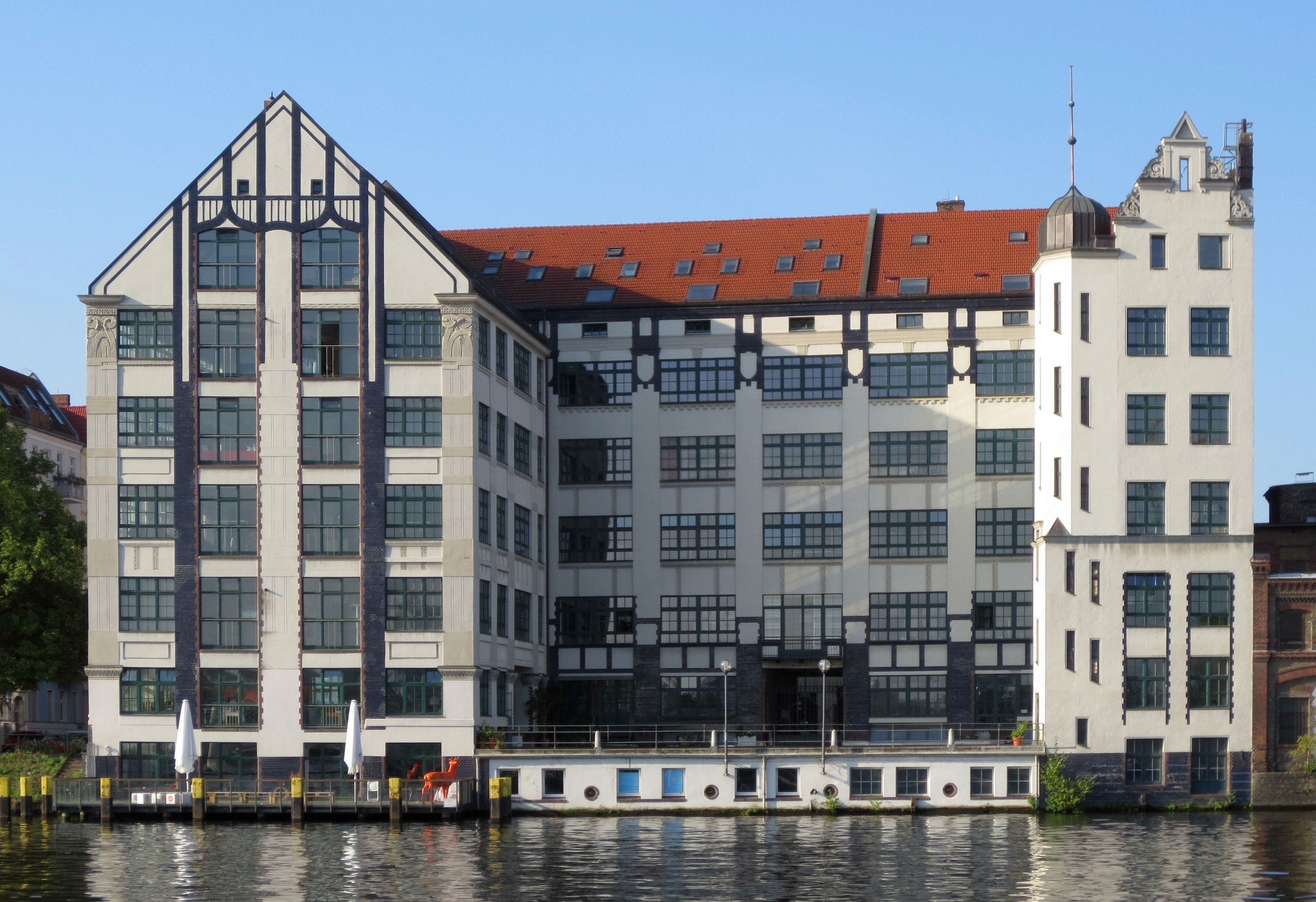 Spree side of the former Storage Warehouse South-East, now Wissinger-Höfe, at Pfuelstraße No. 5 in Berlin-Kreuzberg. The large complex with three courts was constructed from 1905 to 1907 to designs by Kurt Berndt. It has been designated as a cultural heritage monument.